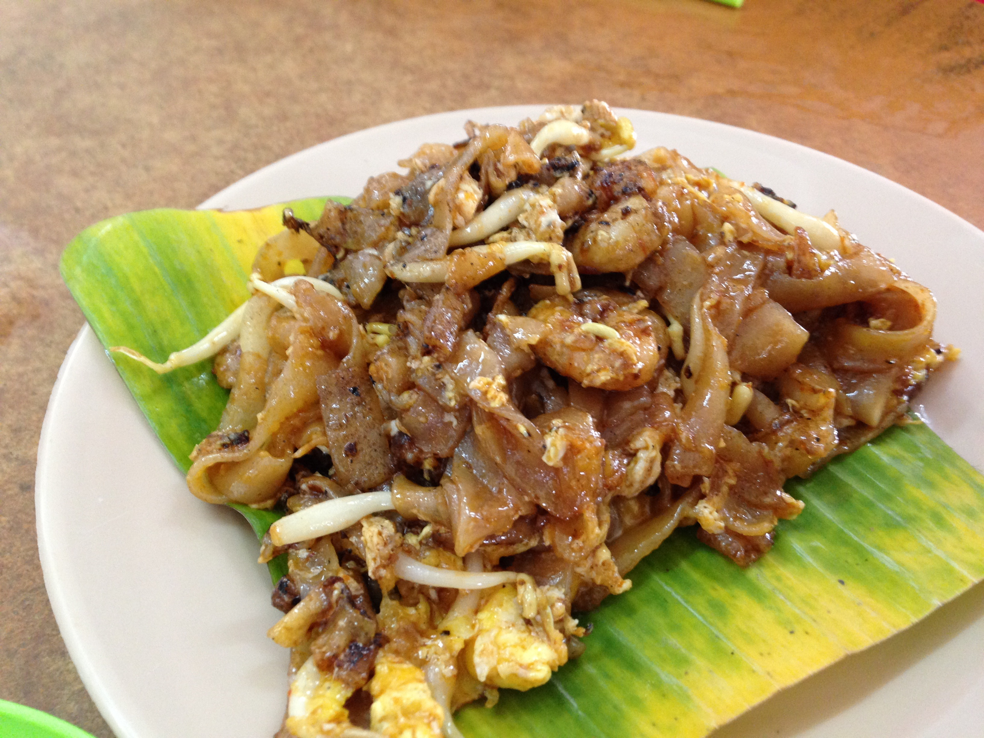 char kway teow in parit buntar